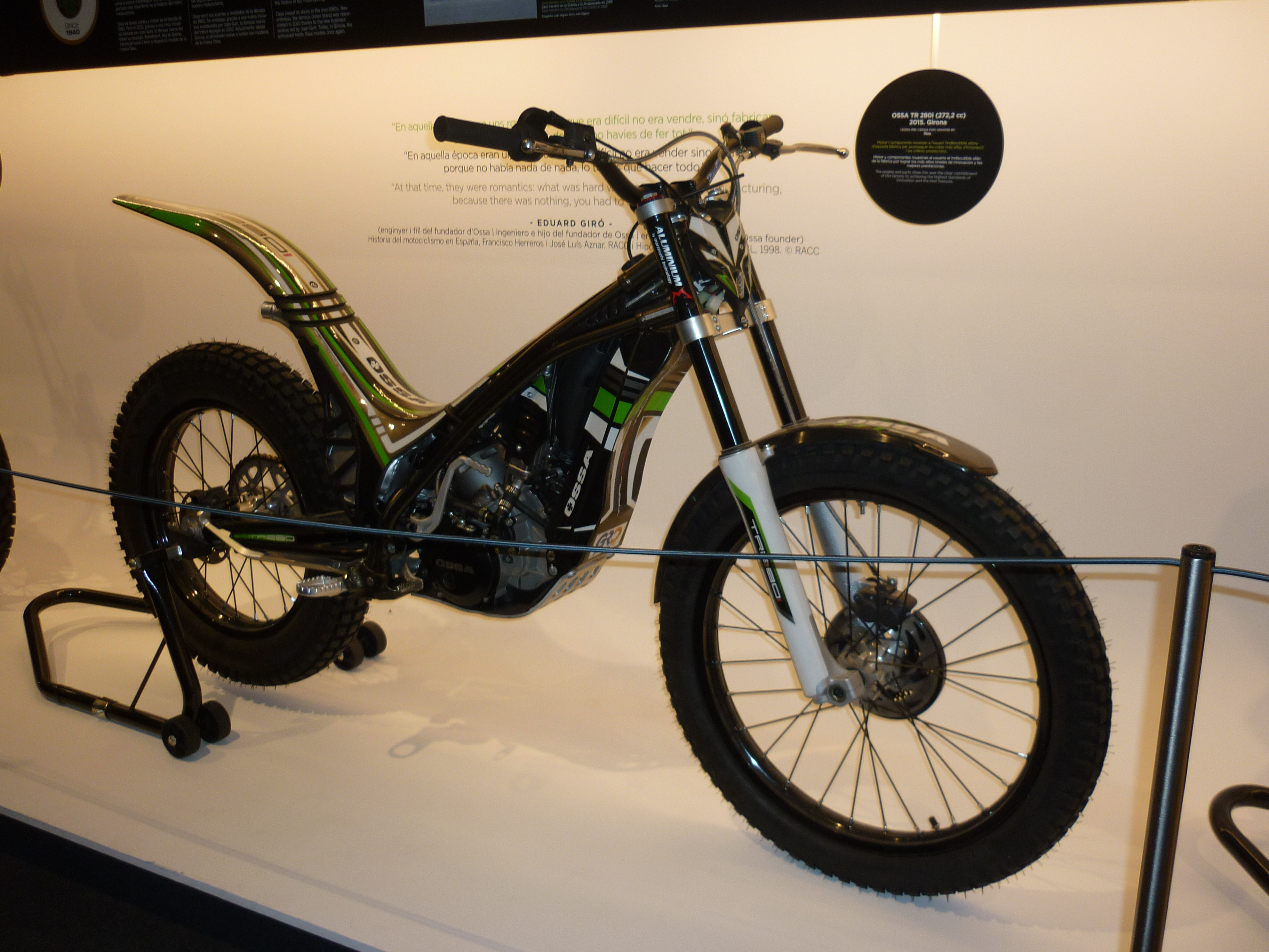 Ossa TR 280i (272,2 cc), 2015